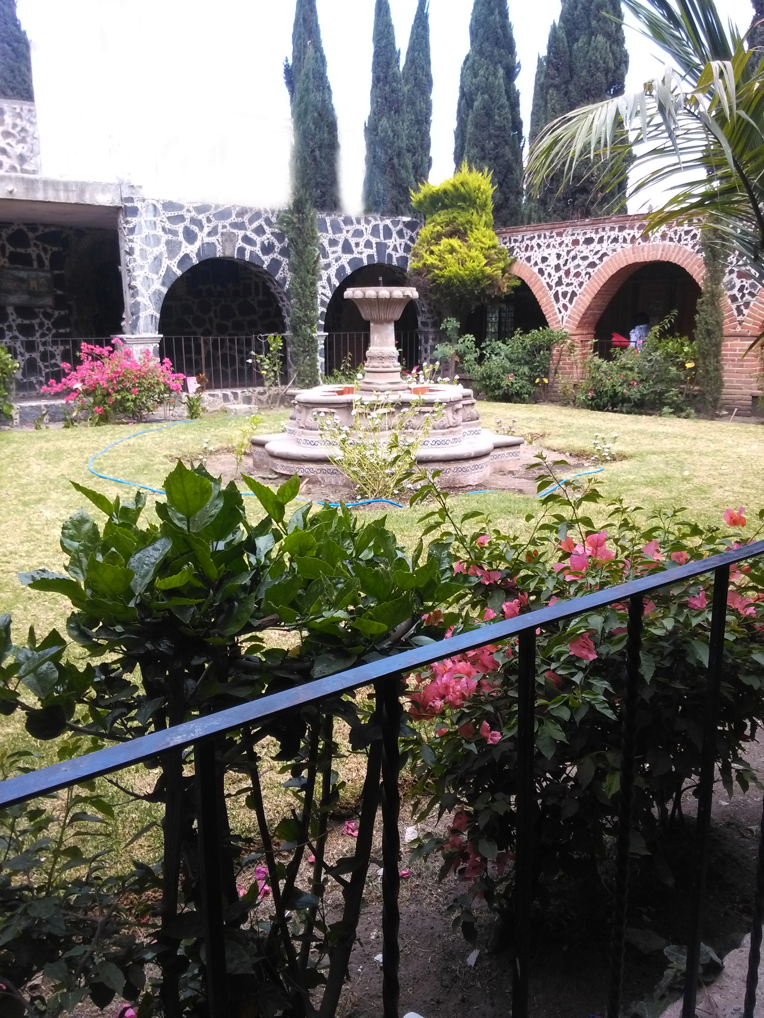 Cloister located besides the church of San Pablo Atlazalpan, Mexico